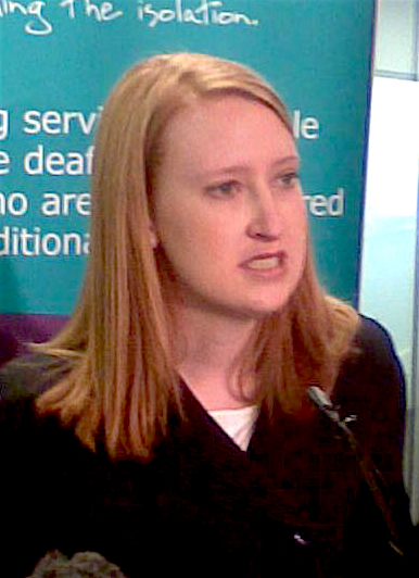 Donna Faragher, Liberal politician from Western Australia